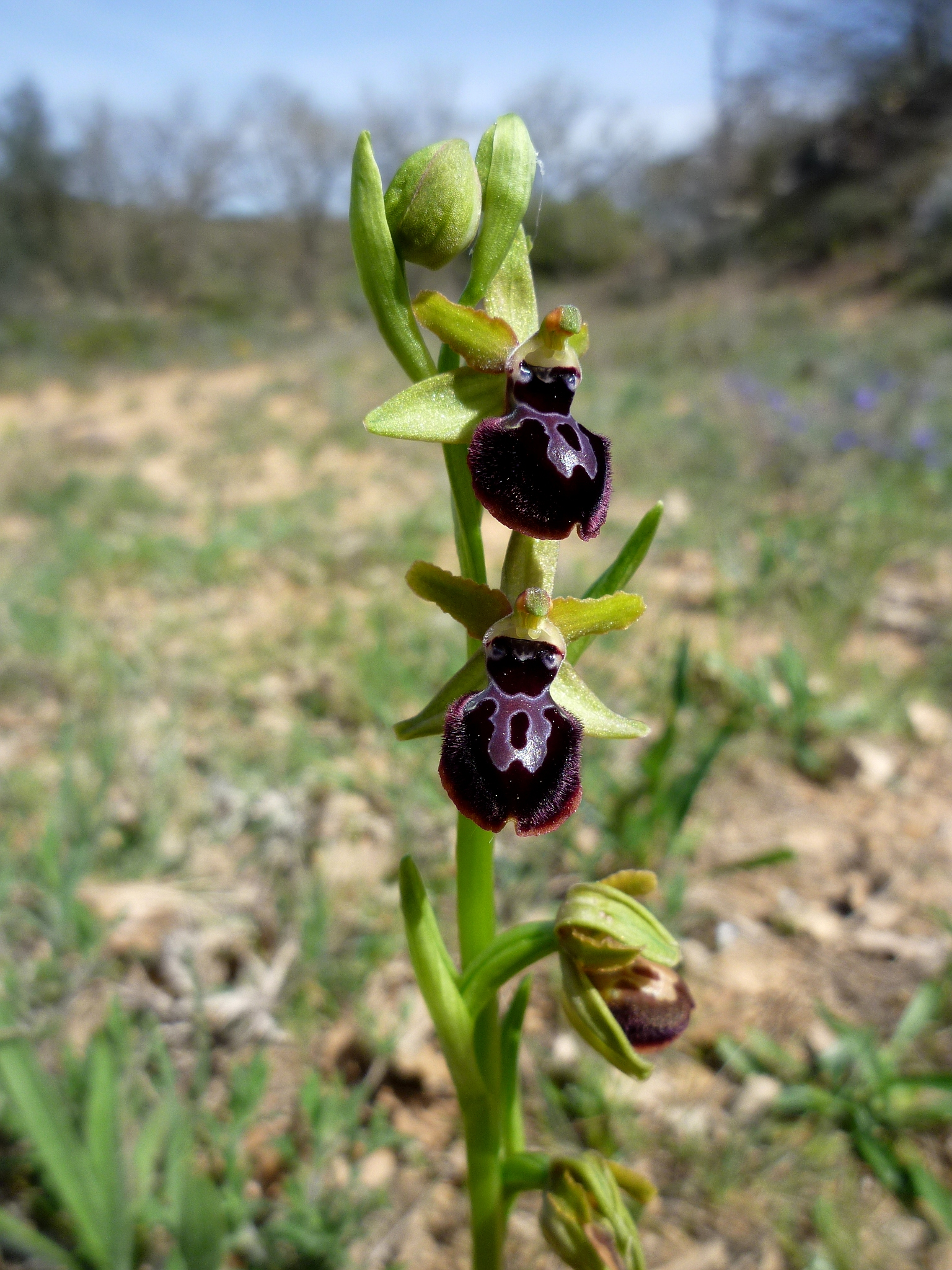 Ophrys sphegodes. In Torà (Segarra- Catalunya). On 590 m. altitude